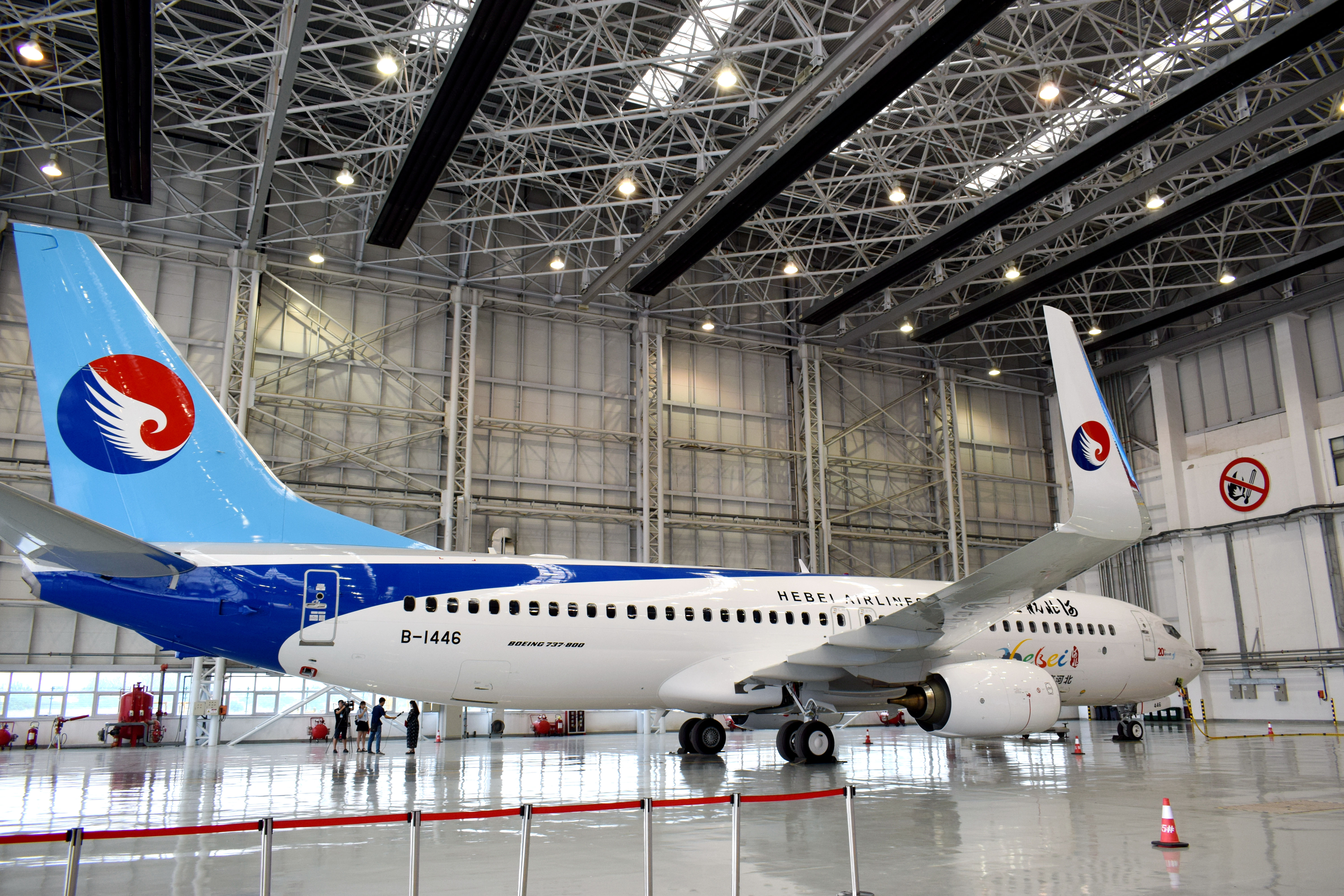 HEBEI AIRLINES“Enjoy Hebei”Aircraft (20th,Boeing737-800,B1446)